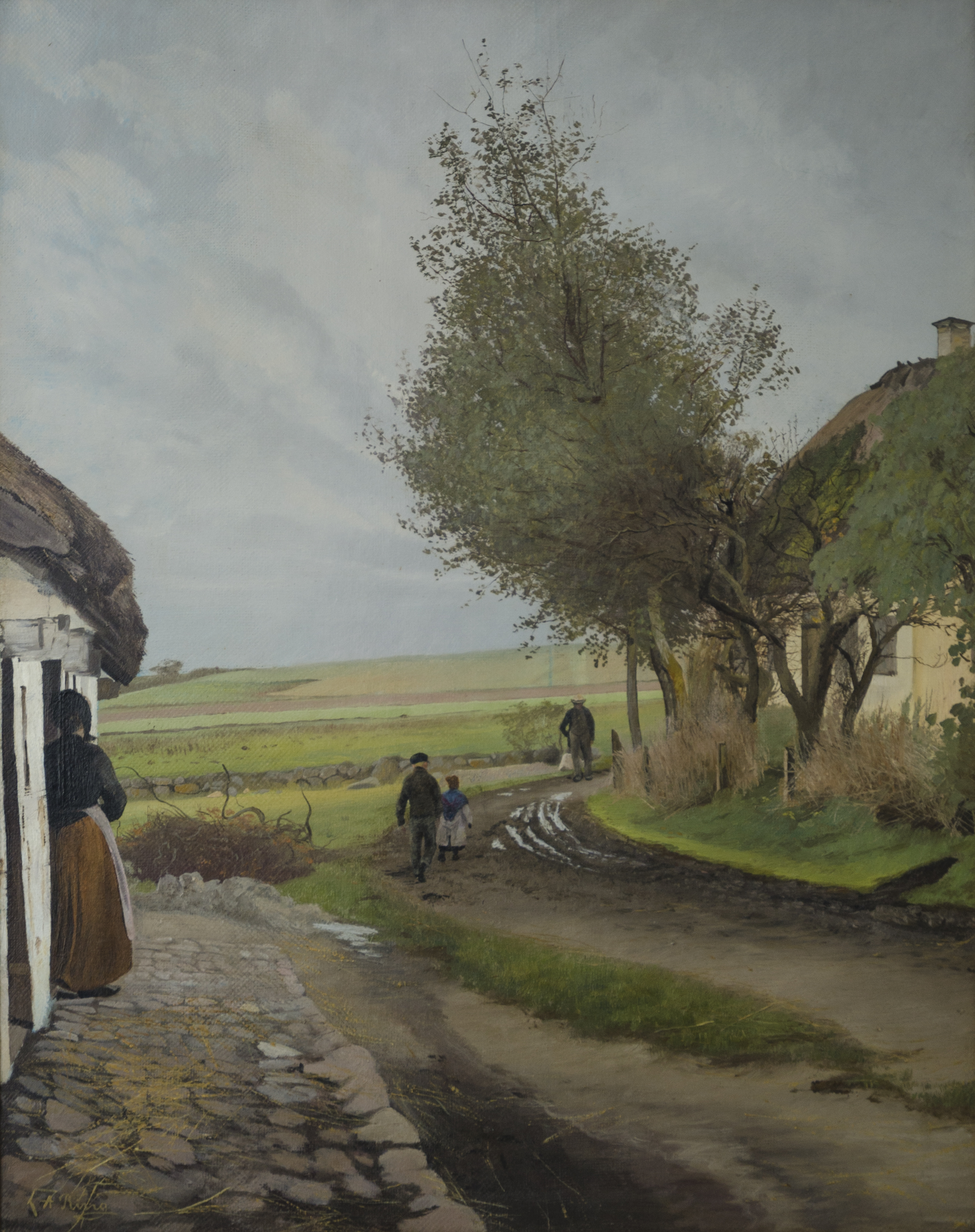 "Father comes home" by Laurits Andersen Ring (1854-1933).